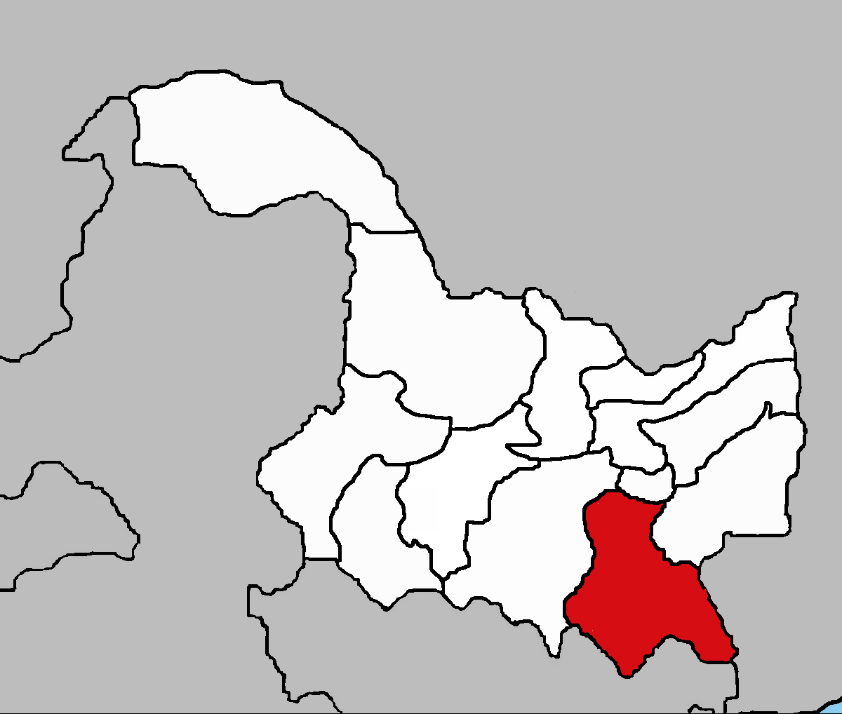 Maps of Mudanjiang Prefecture — Heilongjiang Province, China.